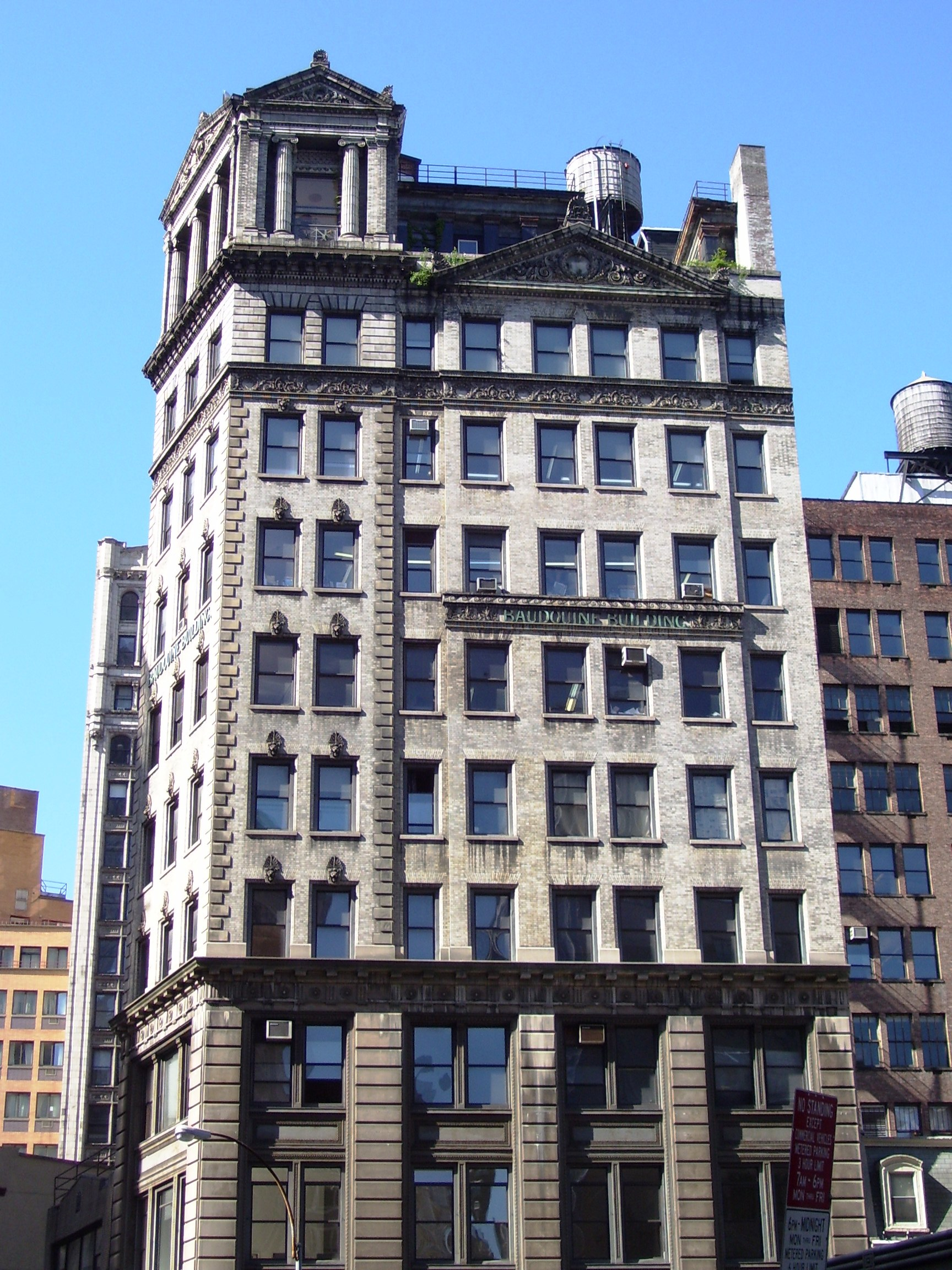 The Bauodouine Building at 1181-1183 Broadway (also known as 22 West 28th Street) at the corner of West 28th Street in the NoMad neighborhood of Manhattan, New York City, was built in 1895-96 and was designed by Alfred Zucker in the Classical Revival style. It was a store and office tower which replaced a hotel, and is topped by a Greco-Roman temple. The building lies within the Madison Square North Historic District. (Source: "NYCLPC Madison Square North Historic District Designation Report")